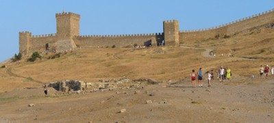 The fortress in Sudak, Crimea, built in XIV/XV centuries by Italians from Genoa.